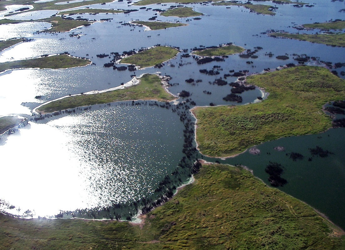 The Pantanal - a Flooded grasslands and savannas ecoregion of south-central South America.